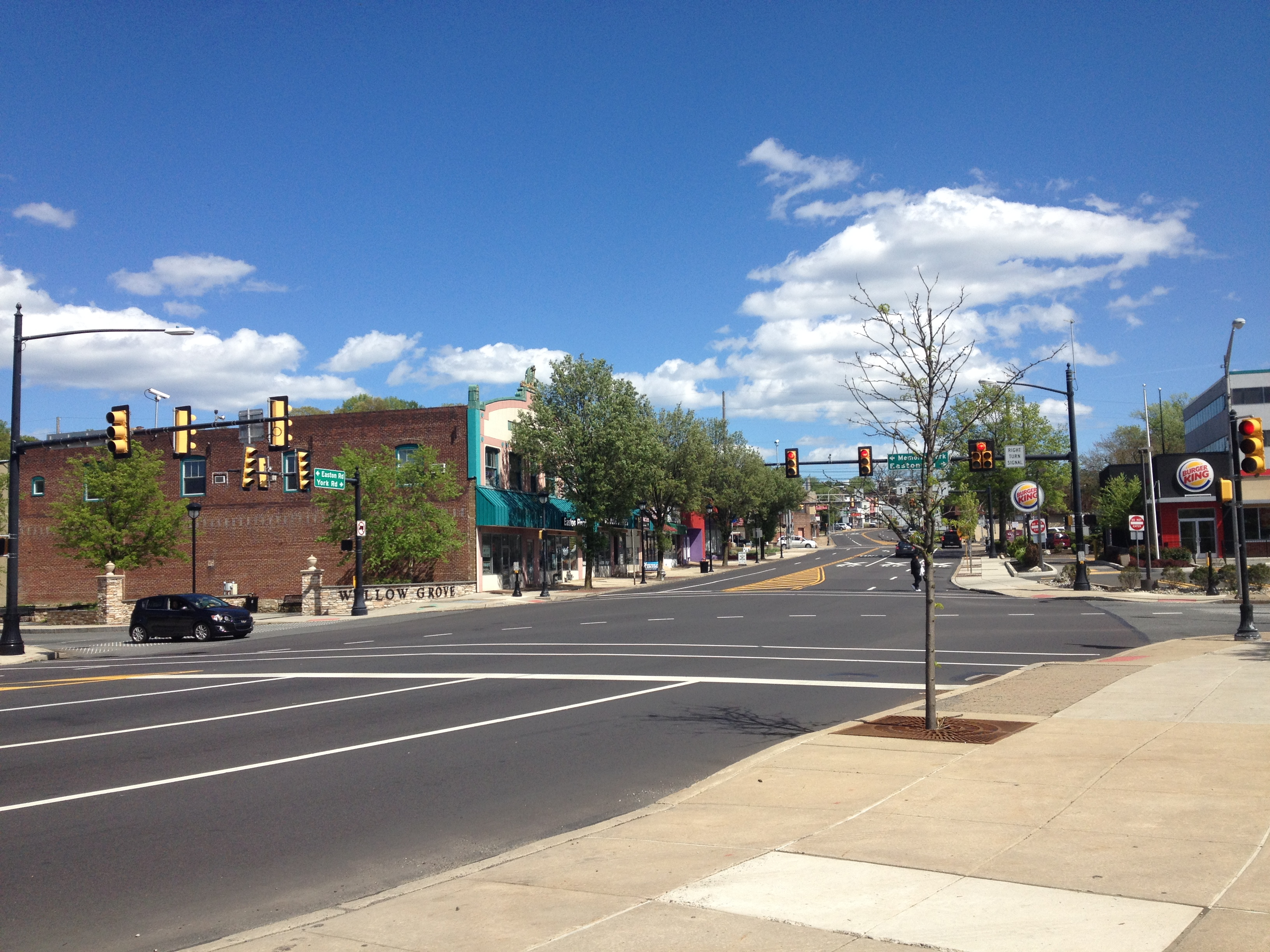 Southbound Pennsylvania Route 611 (Easton Road) at the intersection with the entrance to Memorial Park and Easton Road in Willow Grove, where the route becomes Old York Road.